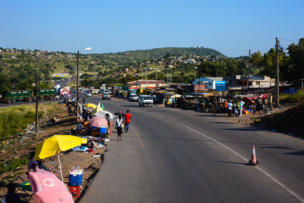 View to Ressano Garcia at the border between South Africa and Mozambique. The road has the number EN4.